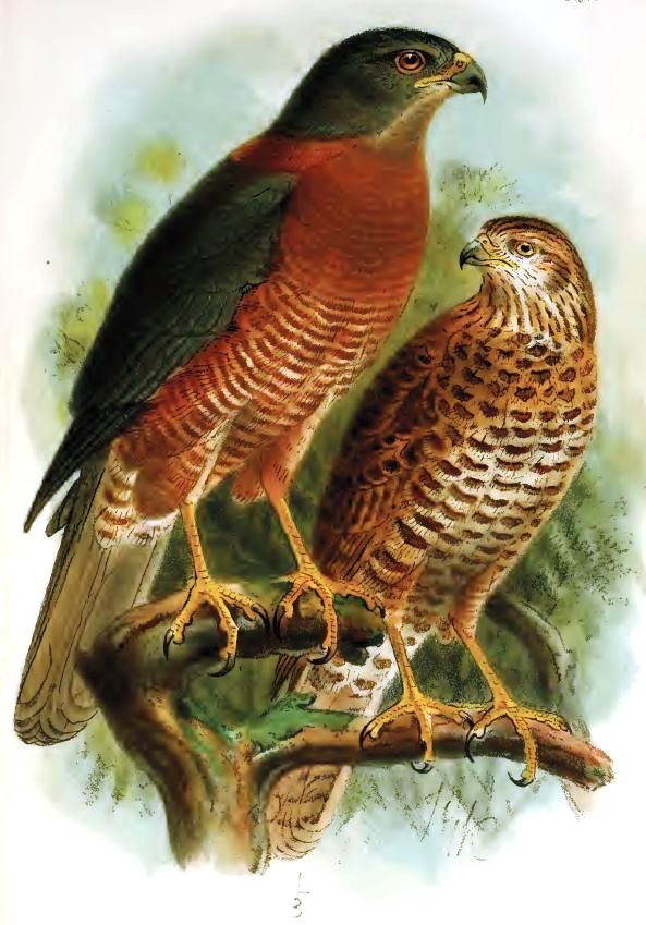 A Christmas Island Goshawk on a Plate from the work A monograph of Christmas Island (Indian Ocean) by Charles William Andrews (1866-1924). Illustration by John Gerrard Keulemans (1842-1912)